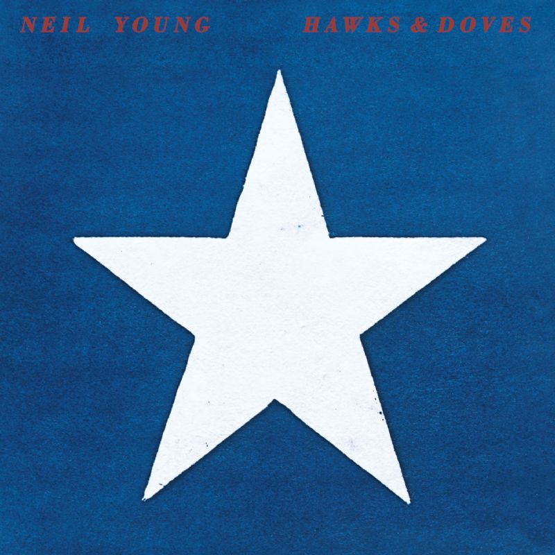 Album cover of Neil Young's Hawks & Doves (1980).